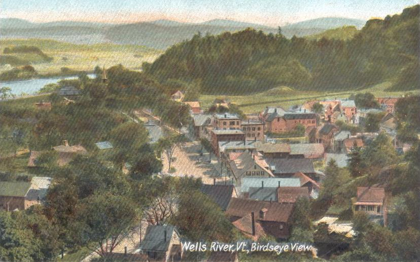 Bird's-eye view of Wells River, Vermont; from a 1907 postcard published by the Hugh C. Leighton Company, Portland, Maine.